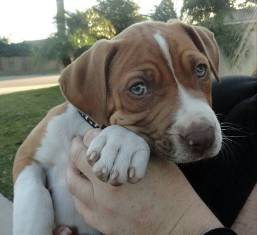 Dolli is a rescued pit-bull mix who was posted on Pet Social Worker's listing webpage in February of 2011.